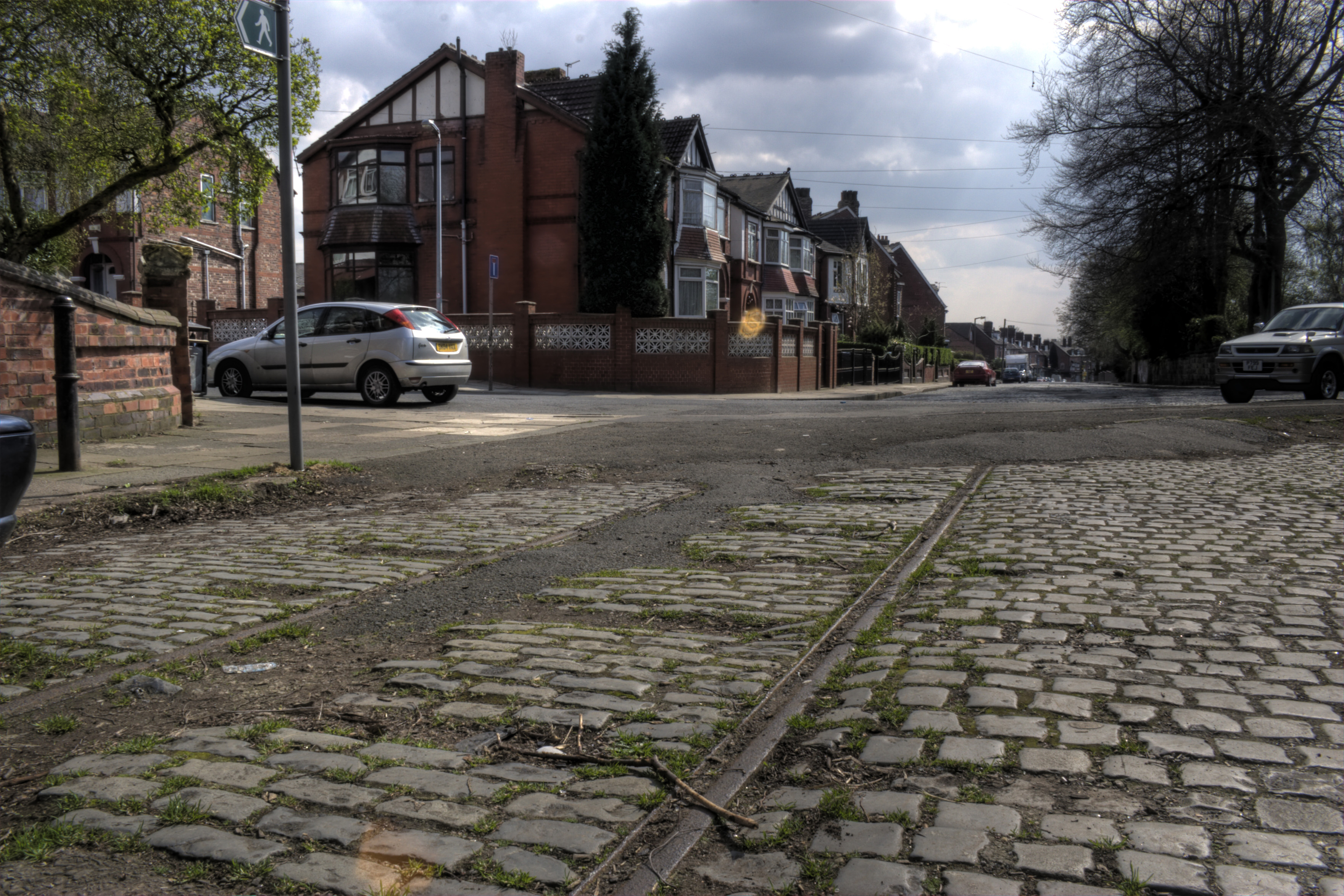 Tram lines at the northern end of Great Clowes Street in Salford. The road is blocked off due to a landslip and hence the setts and rails have survived.